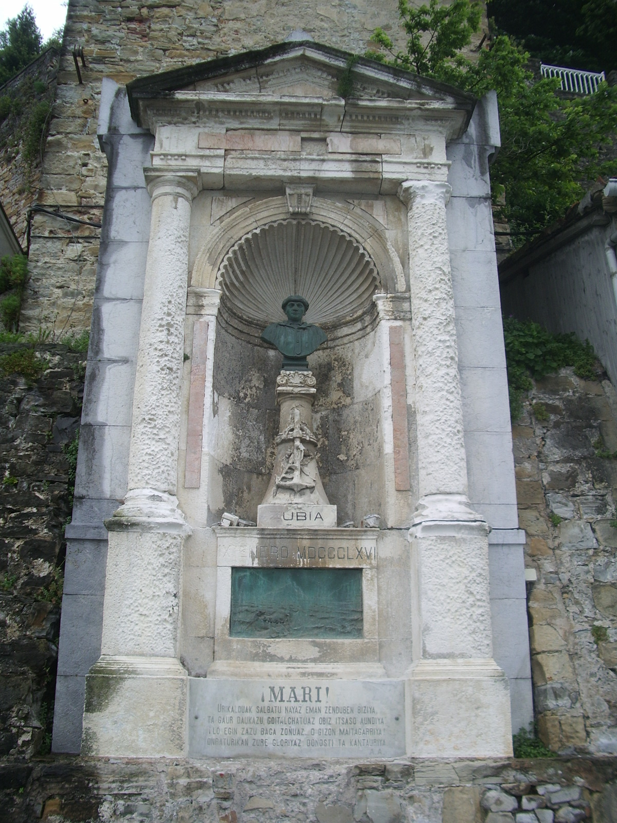 Sculpture in honour of fisherman Mari, port of San Sebastian (Basque Country)